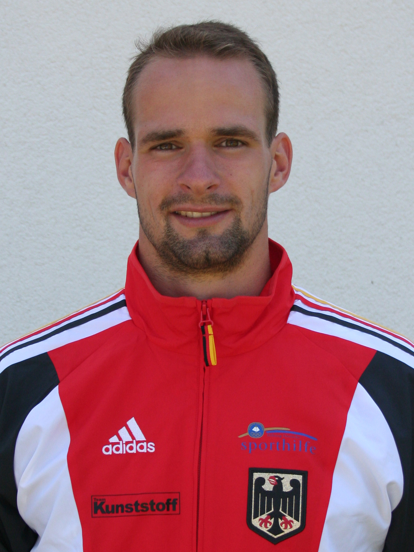 Torsten Eckbrett Olympic Bronzemedalist Canoe Sprint